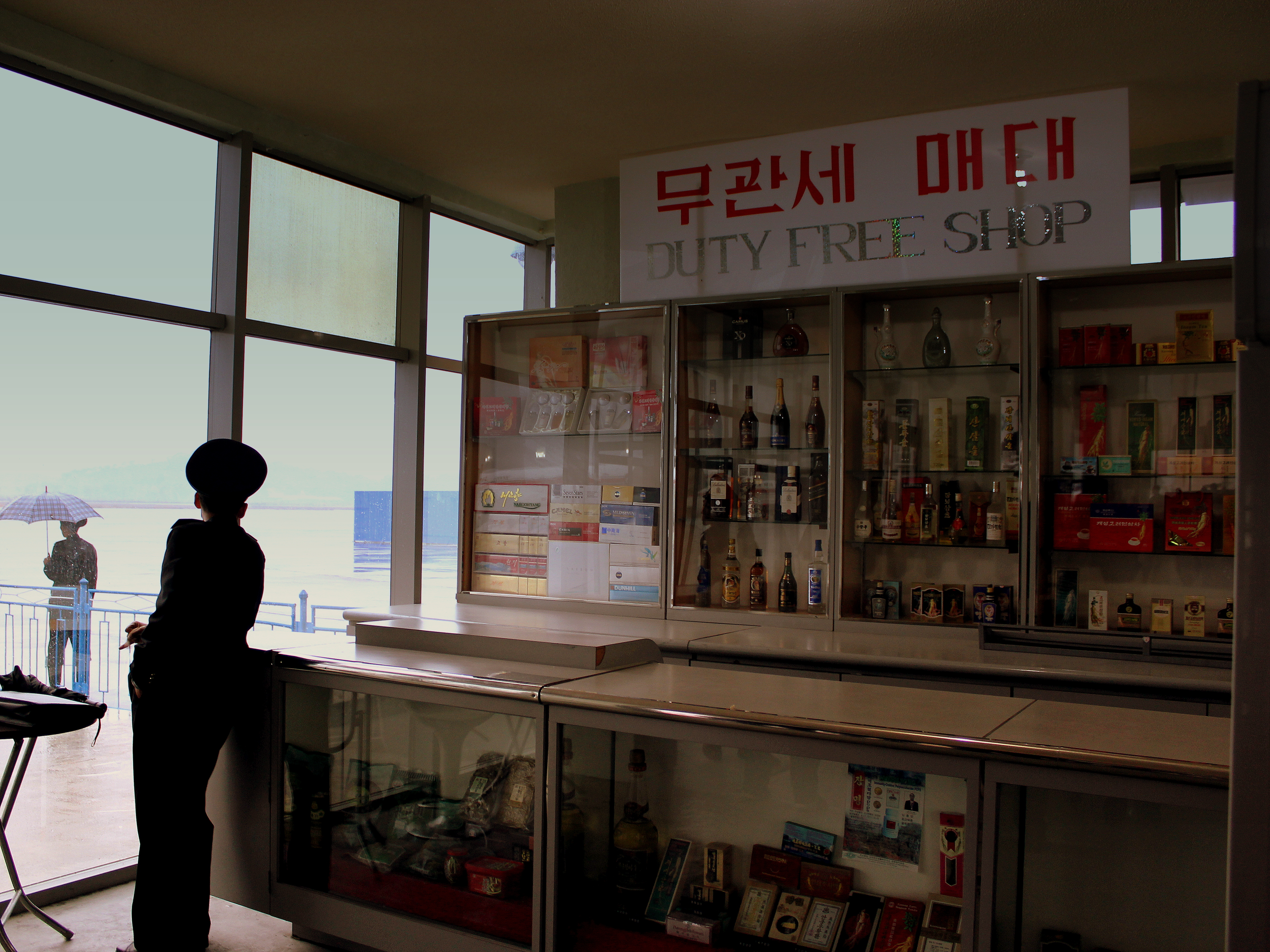 PYONGYANG SUNAN AIRPORT AWAITING FOR AIR KORYO IL18 DEPARTURE TO ORANG MOUNT CHILBO ON A WET TUESDAY MORNING DPR KOREA OCT 2012